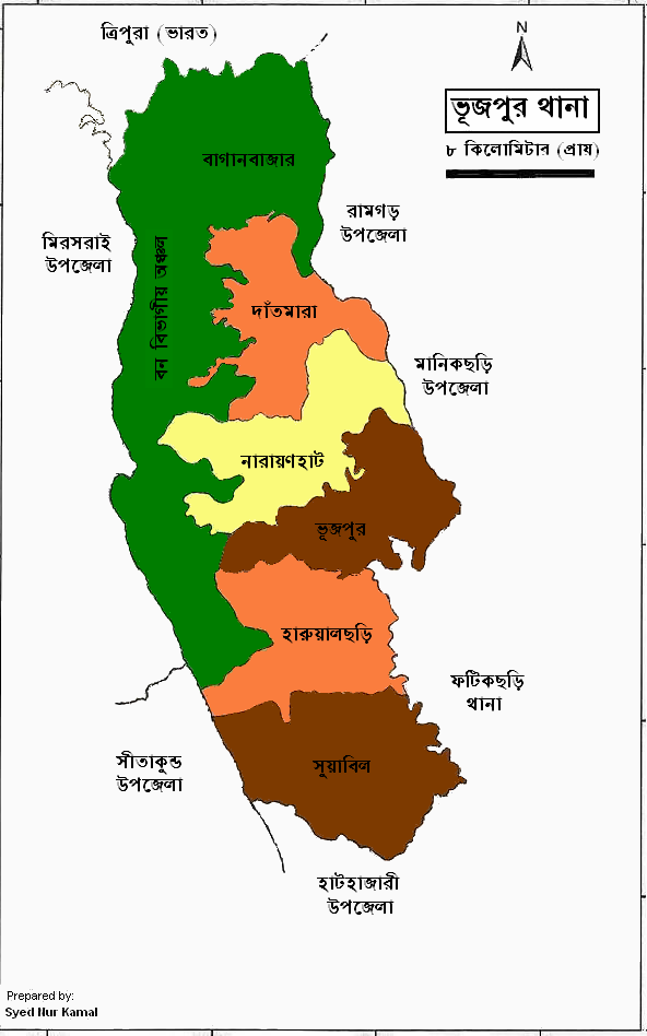 Map of Bhujpur Thana